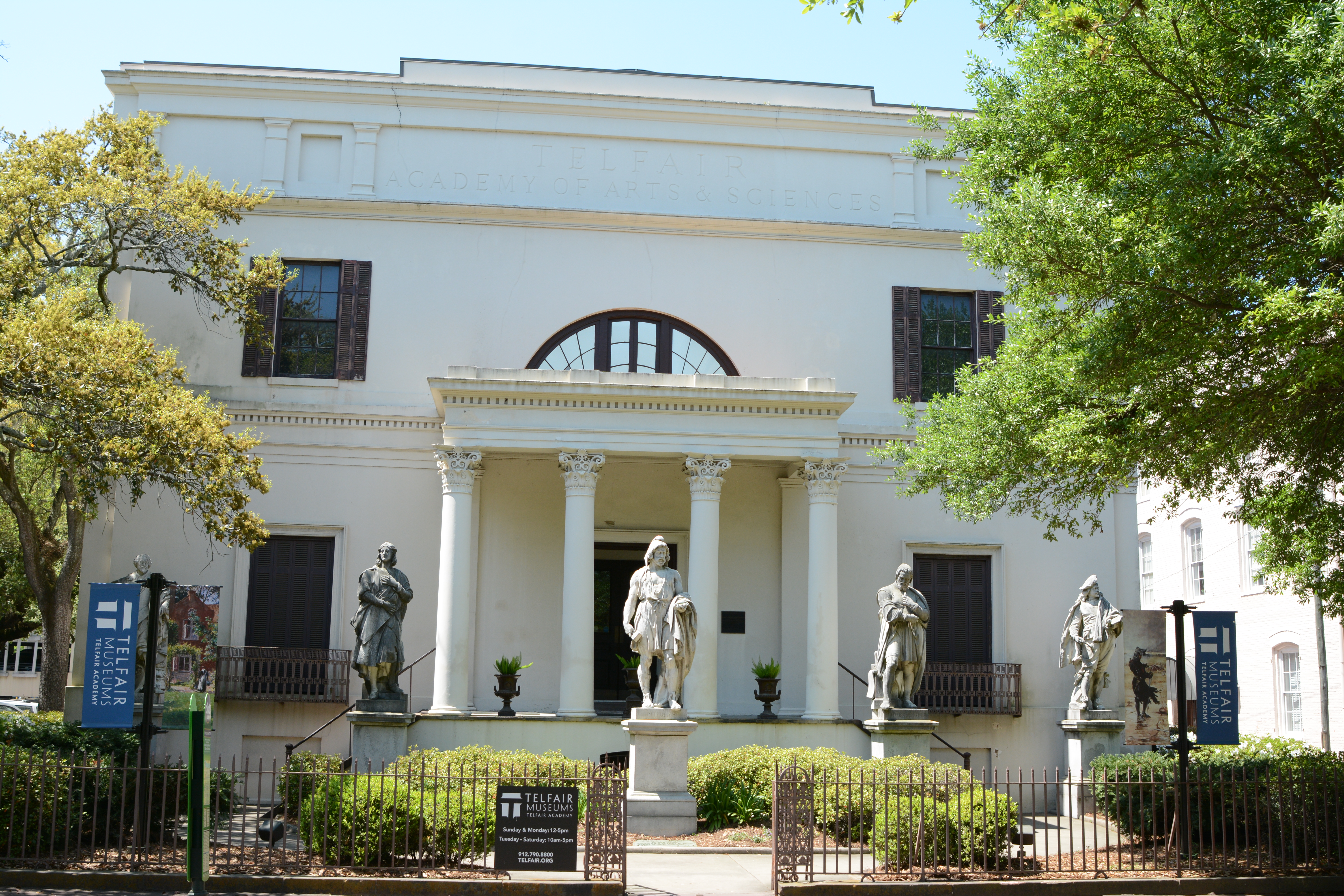 Telfair Museum of Art (also known as Telfair Academy), Savannah, GA, US